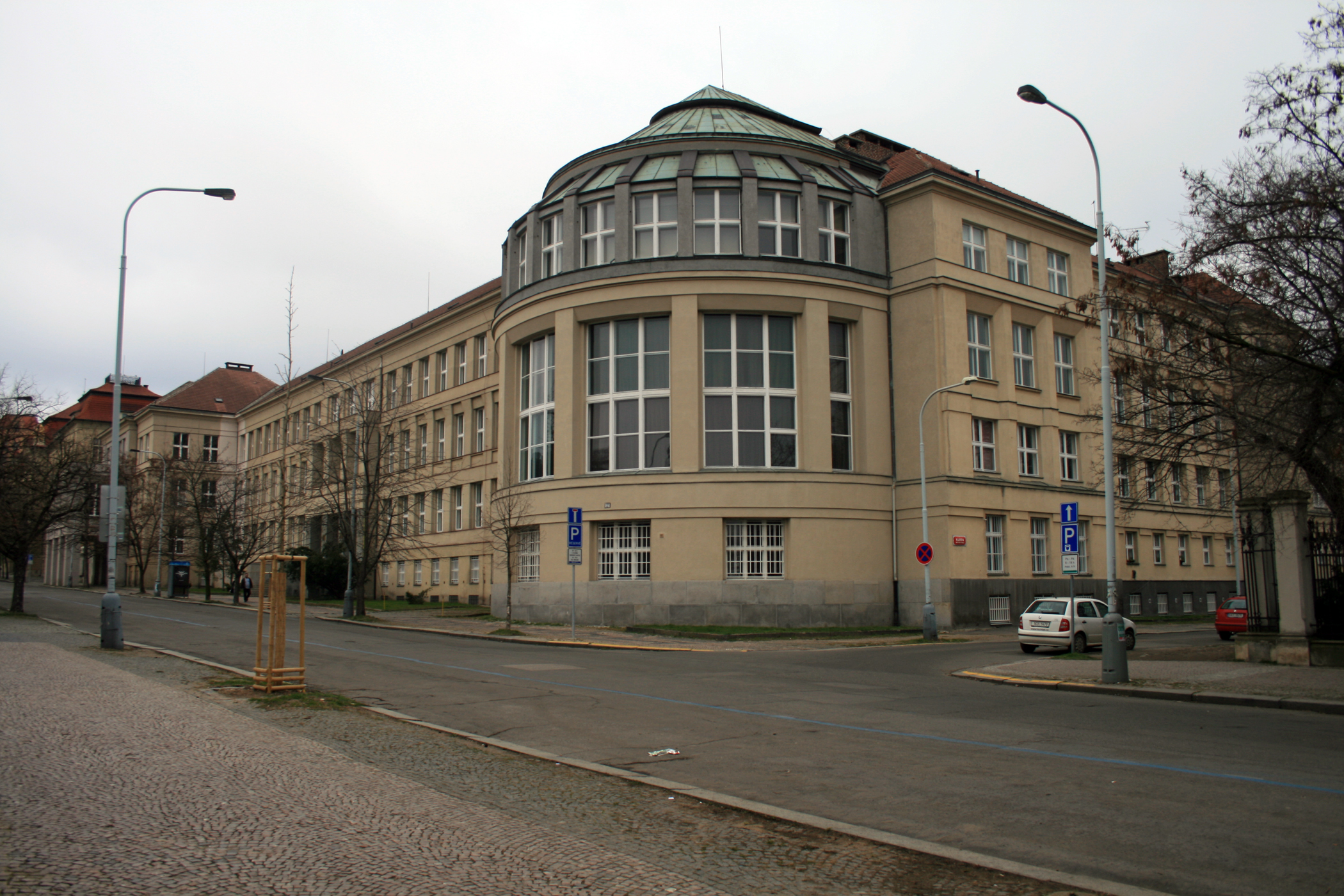 Buildings of Purkyně institut, Medical faculties of Charles University, Albertov, Nové Město, Prague, Czech Republic